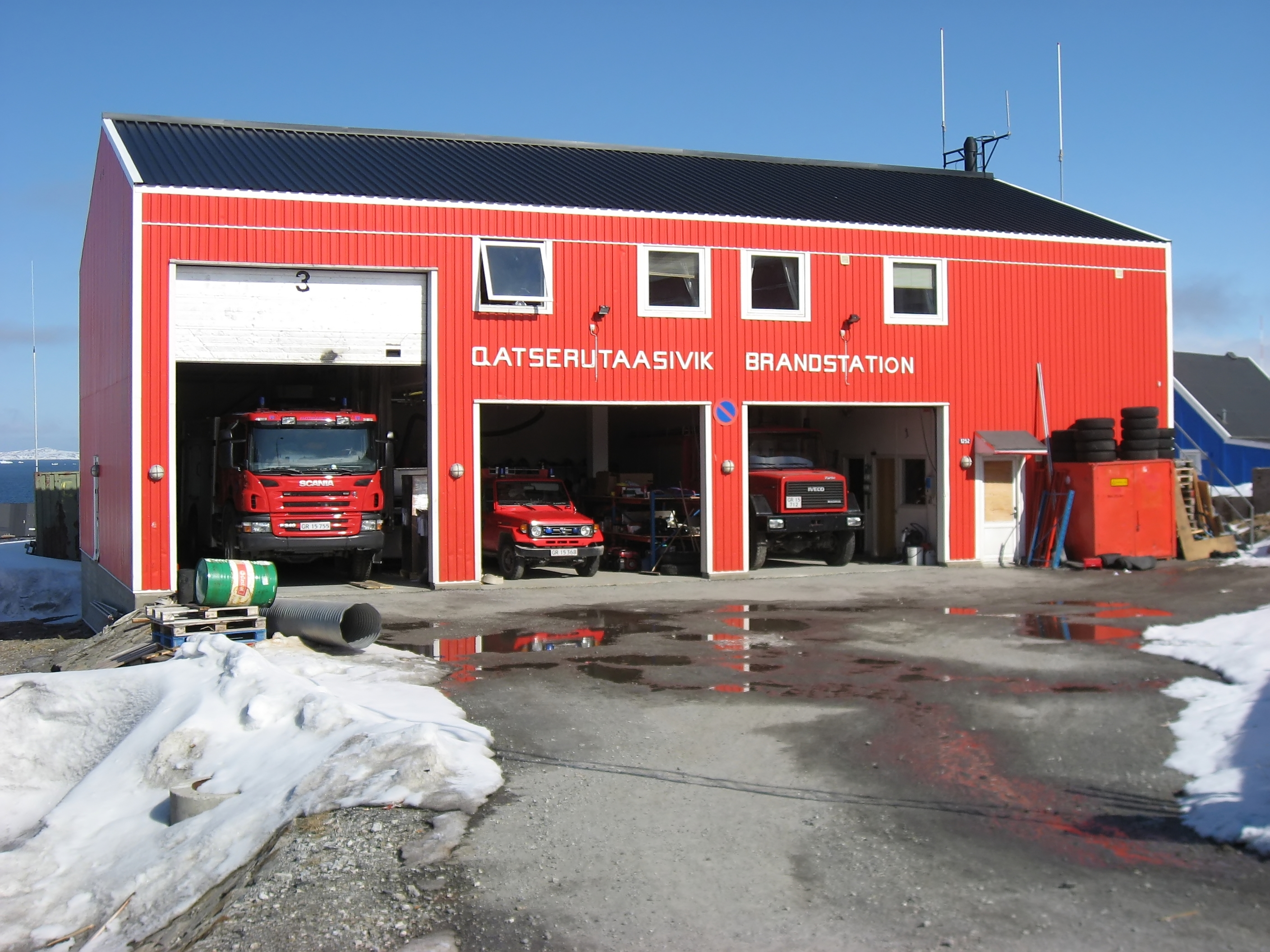 The fire station in Upernavik, Greenland.